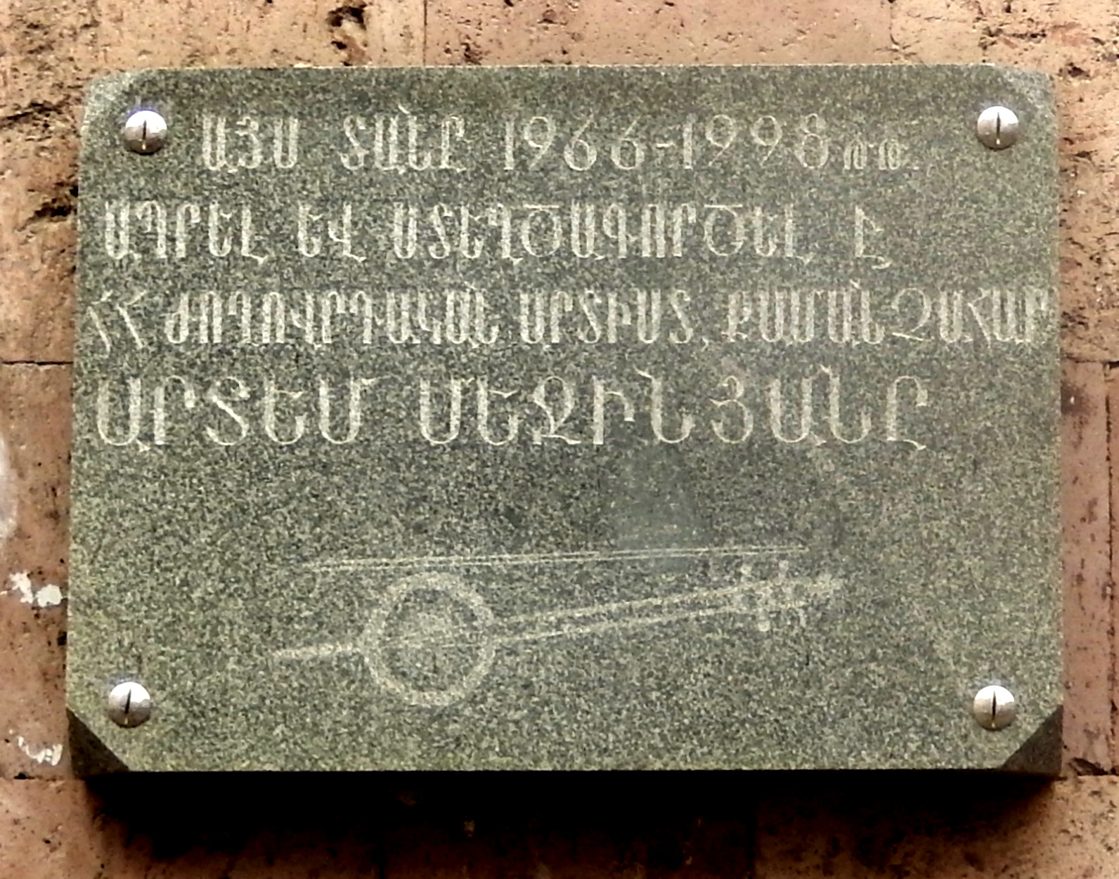 Artem Mejinyan plaque in Yerevan